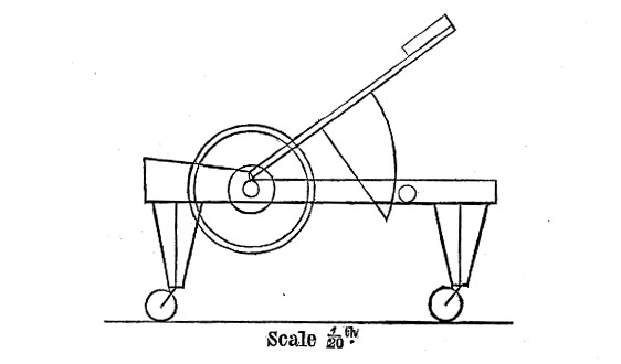 An observing chair designed and described by the astronomer Wentworth Erck.